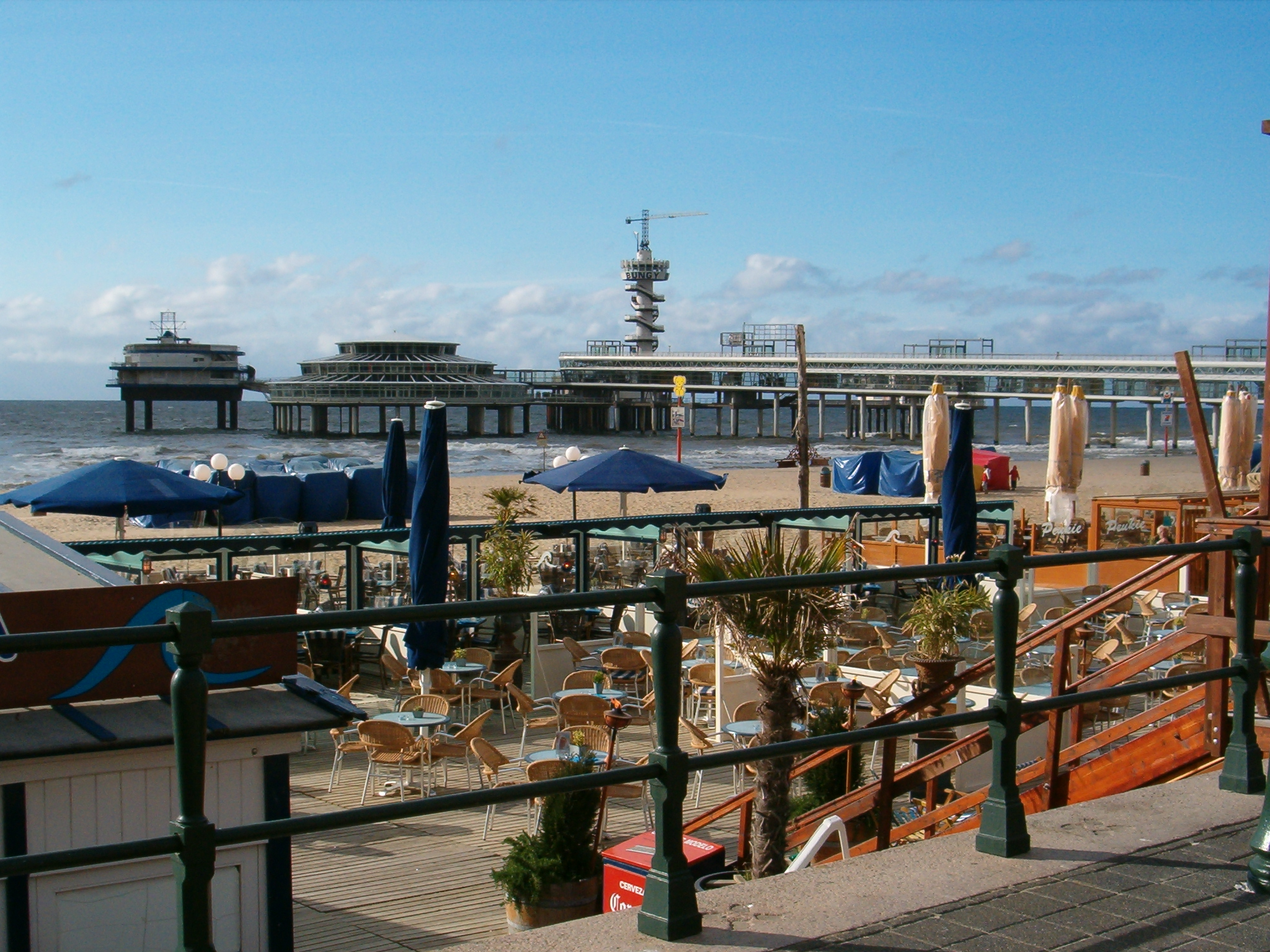 Scheveningen, Netherlands